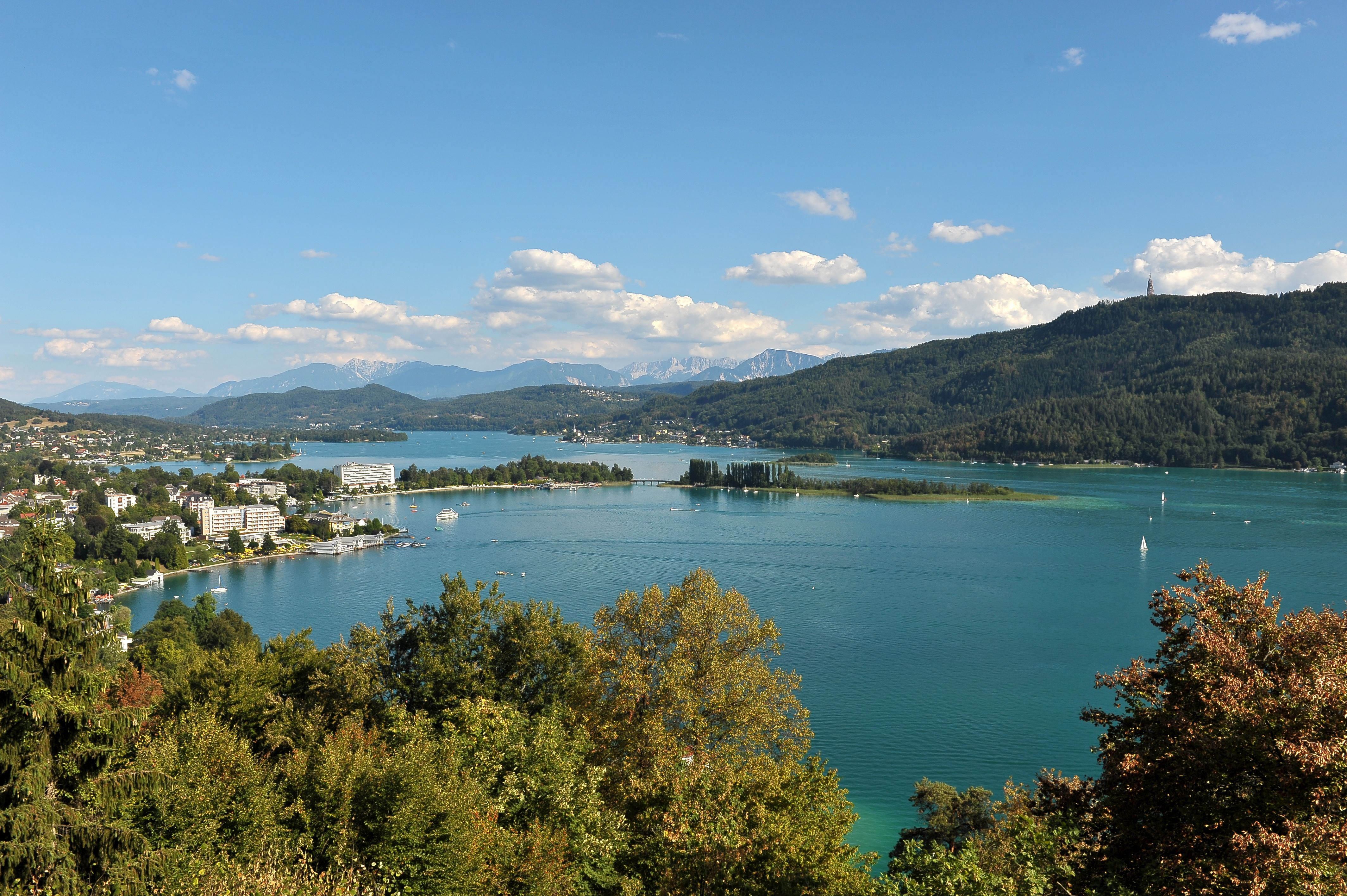 View from the High Gloriette at the peninsula, municipality Poertschach on the Lake Woerth, district Klagenfurt Land, Carinthia / Austria / EU